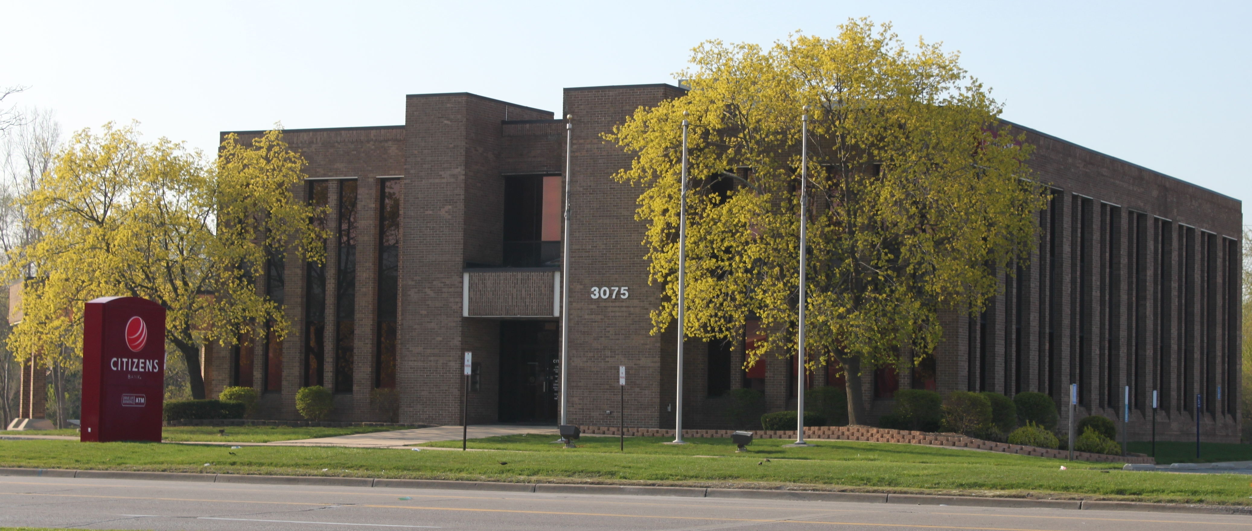 Citizens Bank branch, 3075 Washtenaw, Ypsilanti, Michigan